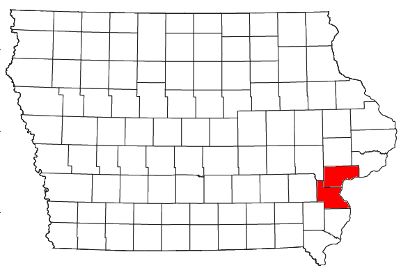 Locator map of the Muscatine Micropolitan Statistical Area in the southeastern part of the U.S. state of Iowa.